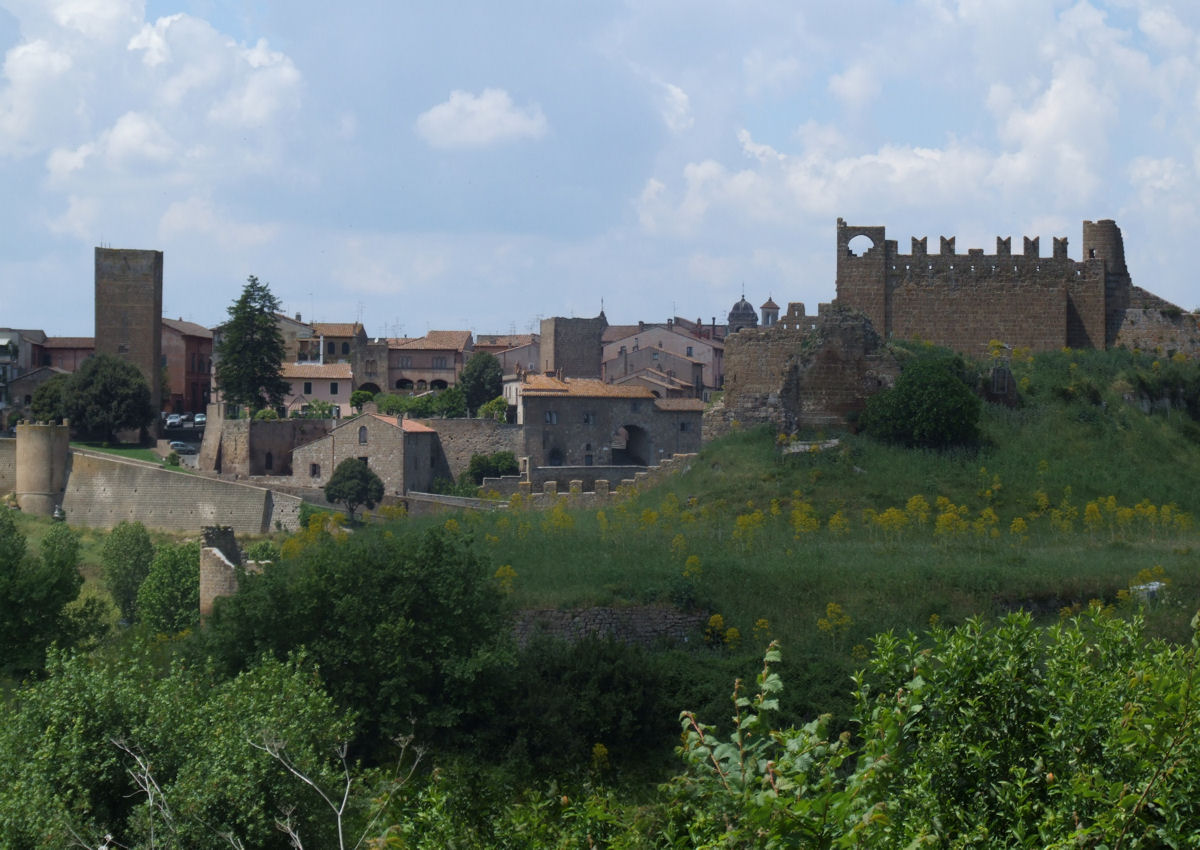 Tuscania, Italy